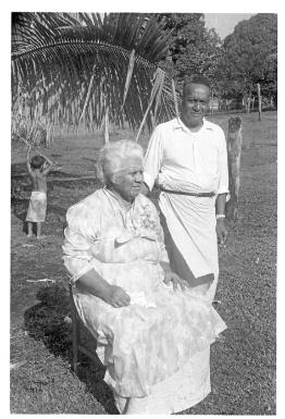 Lord Fusitu'a and his wife Pīsila in their 'api (home), Sapa'ata, Niuafoʻou (1967)